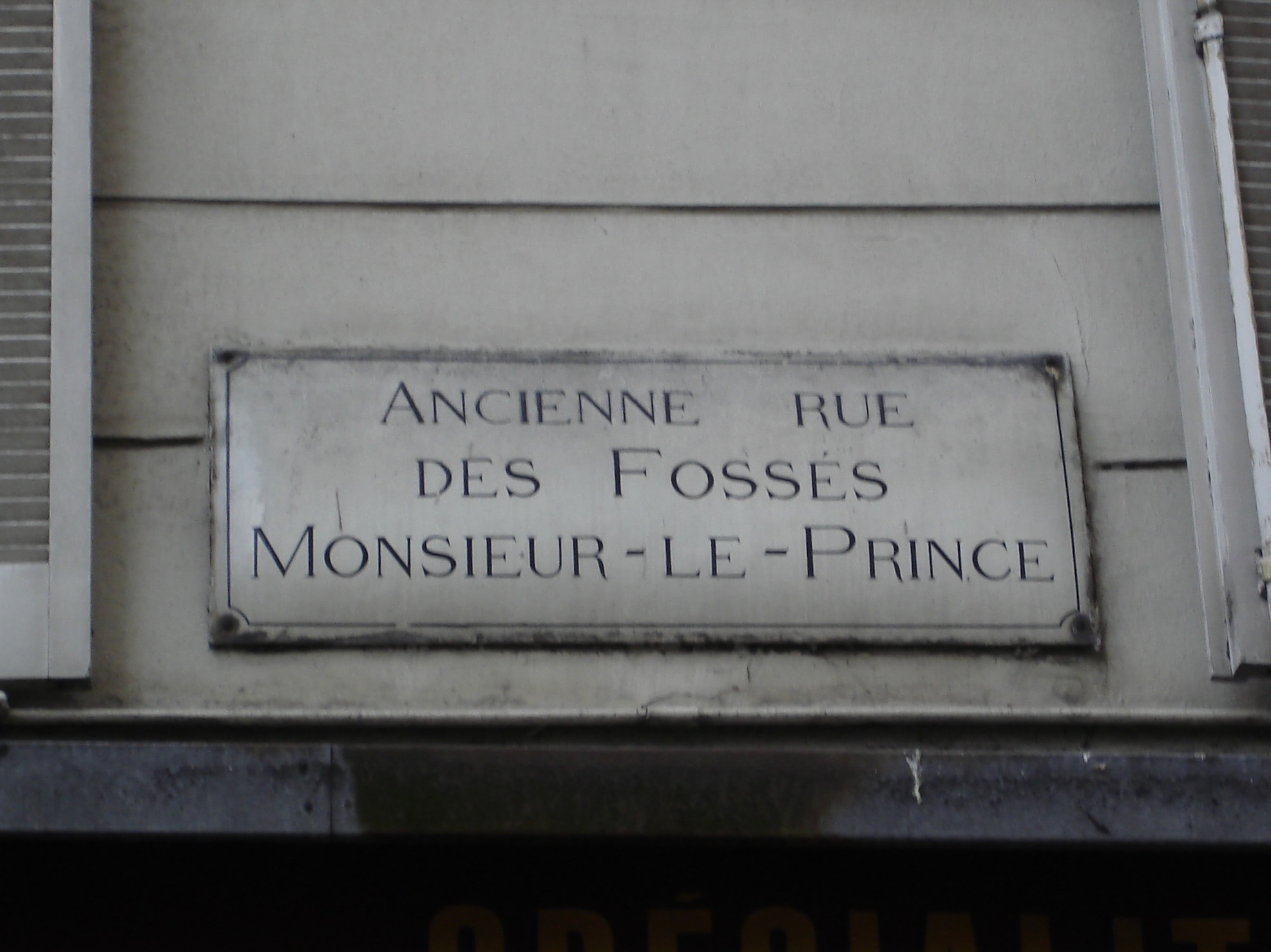 Street plaque with the old name of the "Rue Monsieur le Prince"